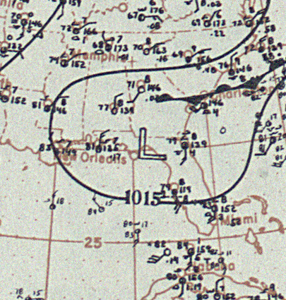 Surface weather analysis map of Hurricane Two on July 31, 1899.